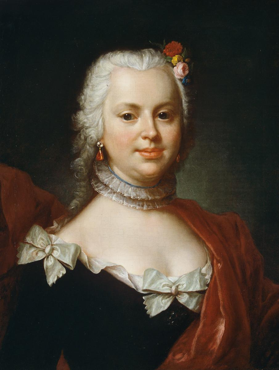 Baroness Swihowska, born Grundmann by Adam Manyoki